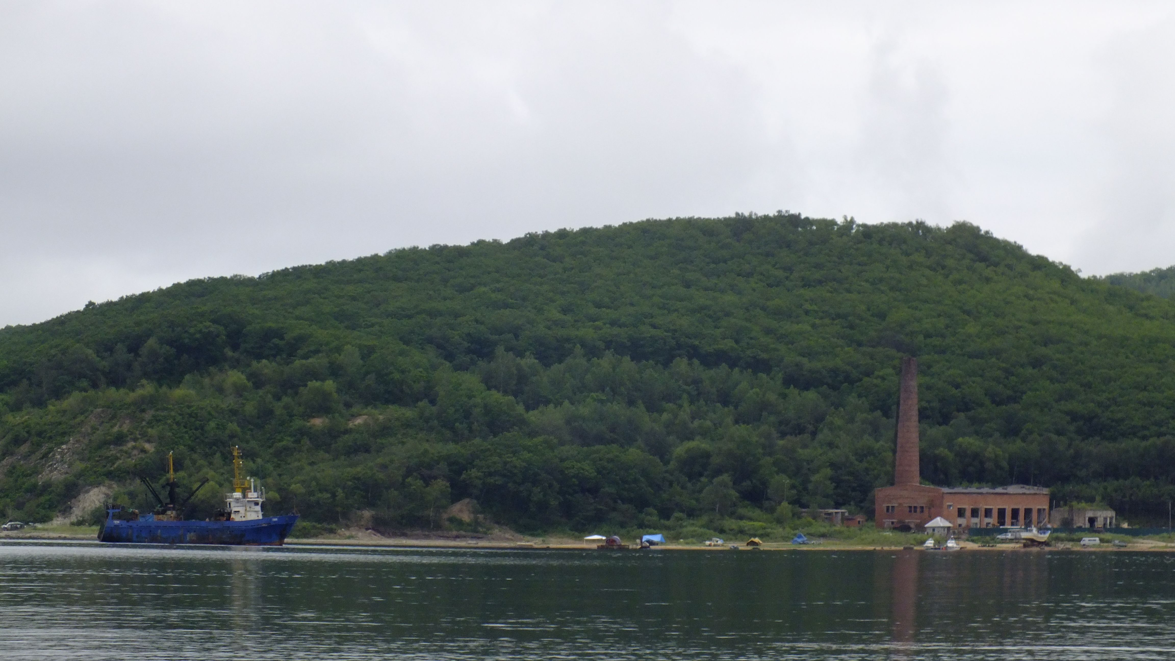 Vladimir Bay